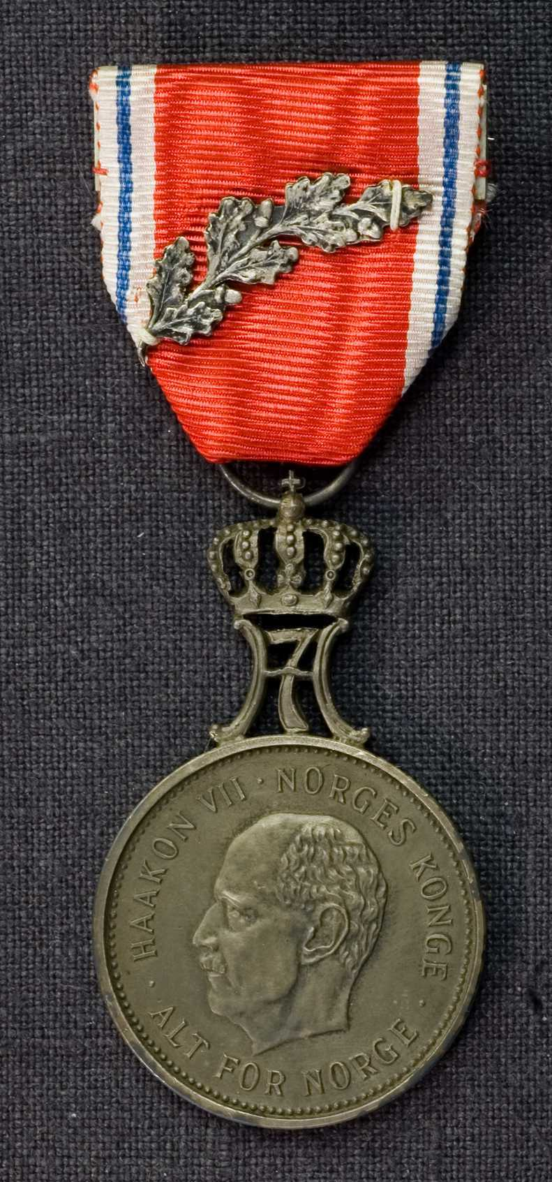 Norwegian medal (front): St. Olavsmedaljen med ekegren. St. Olav's Medal With Oak Branch.